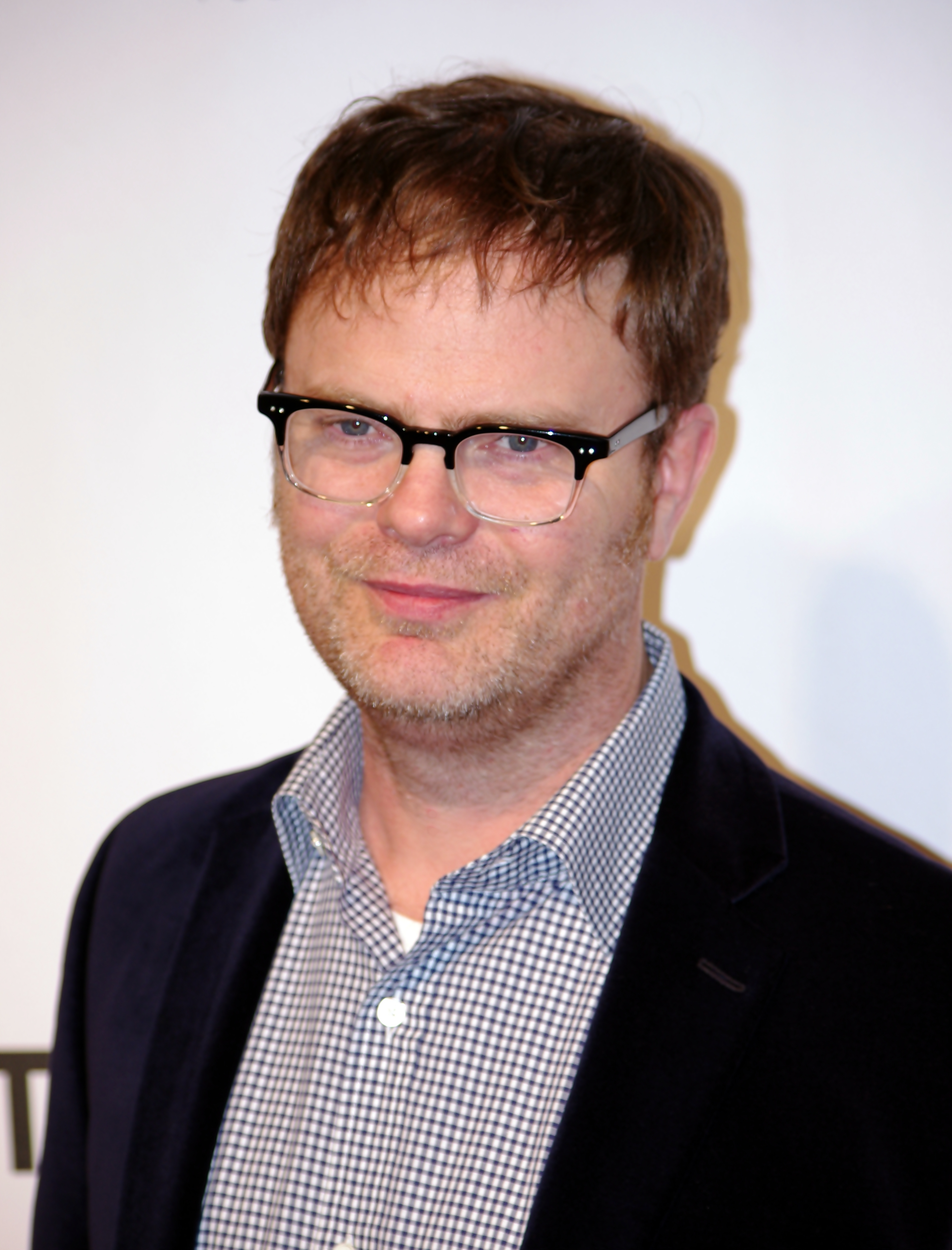 Rainn Wilson attending the premiere of The Union at the Tribeca Film Festival.